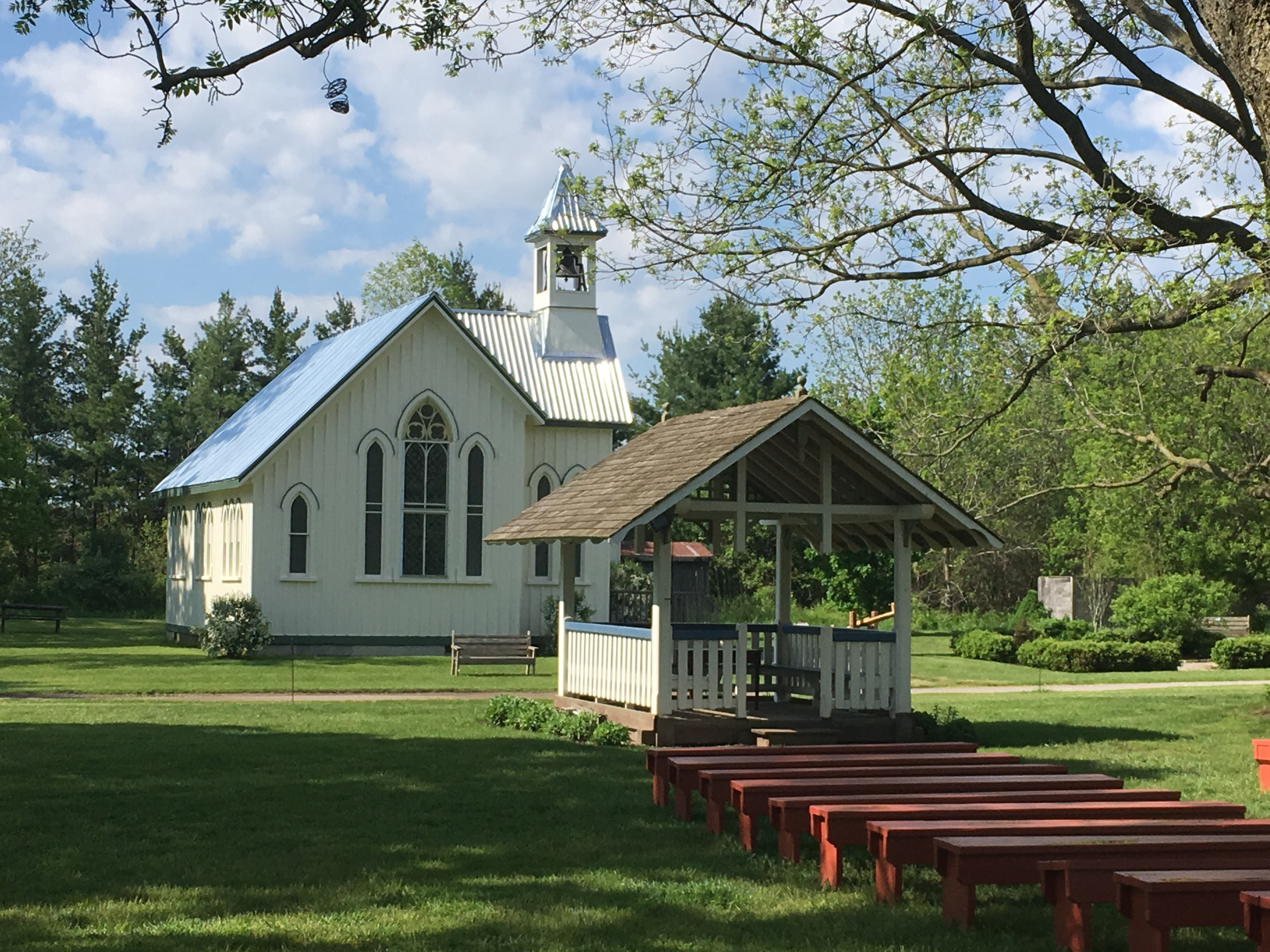 Church at Fanshawe Pioneer Village, London, Ontario